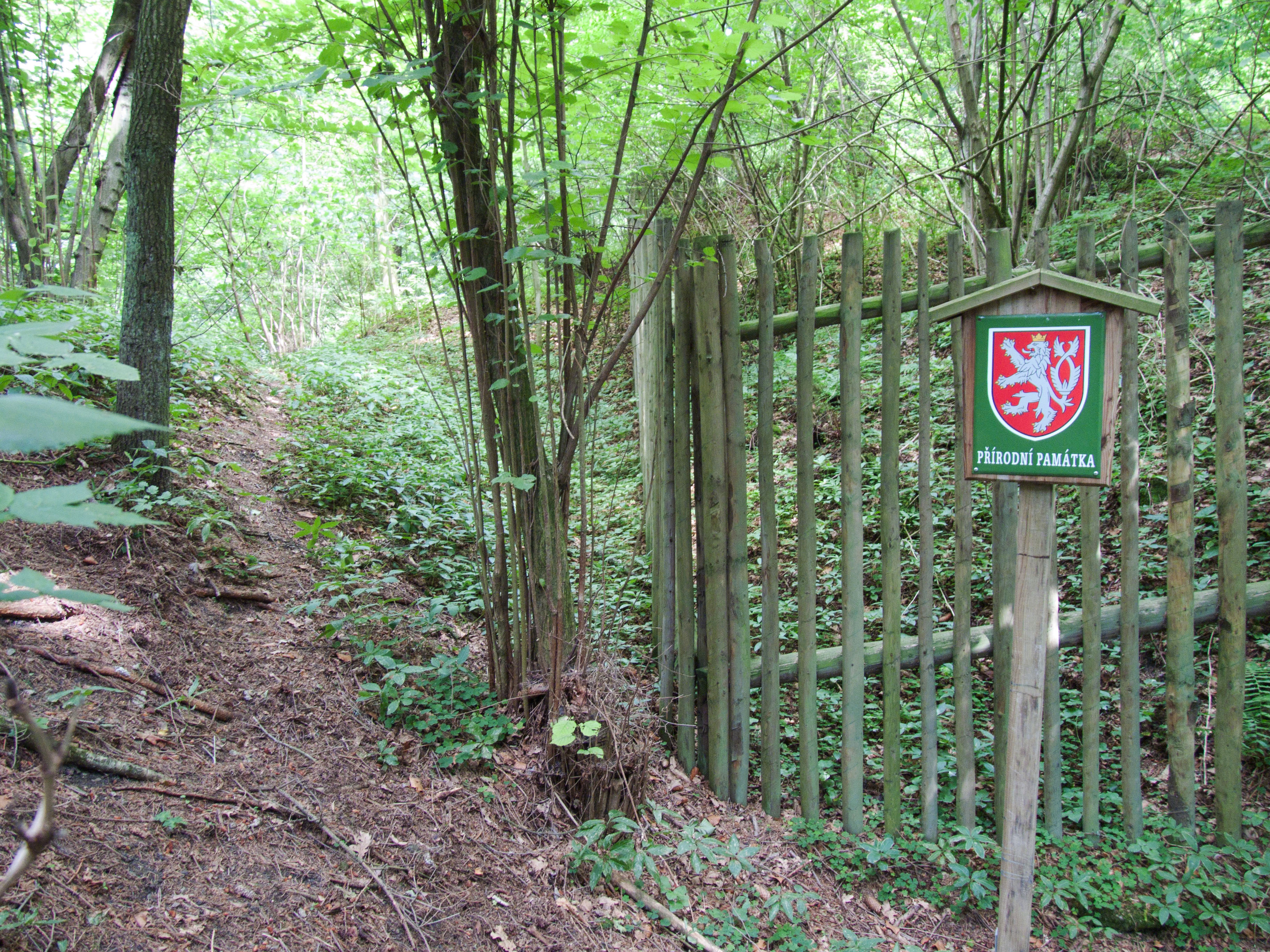 Sign of Libnič, a natural monument near the village of Libníč, České Budějovice District, Czech Republic.